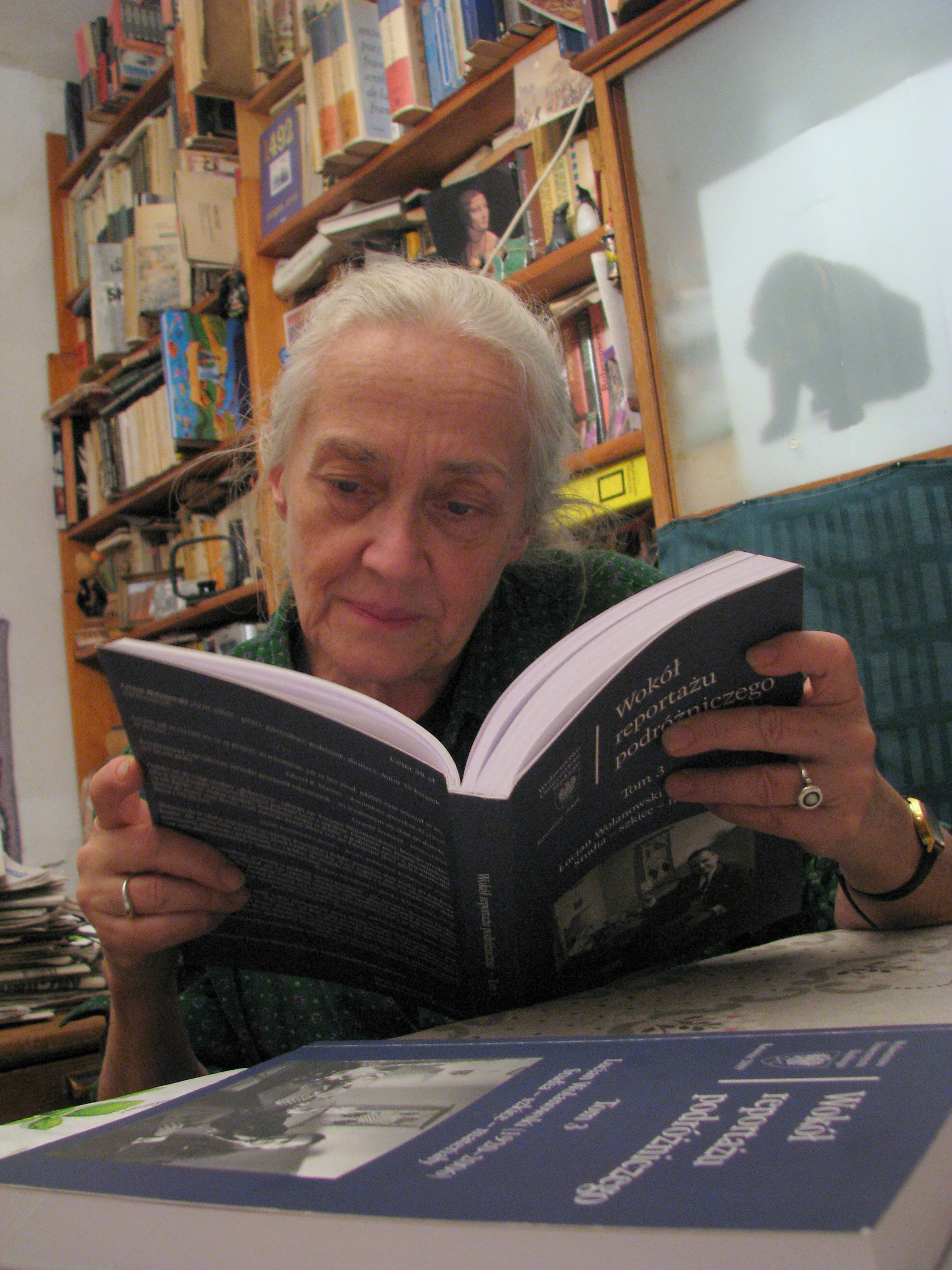 Maria Braunstein (b. May 28, 1942 in Warsaw, Poland), Polish translator. She lives in Warsaw, Poland